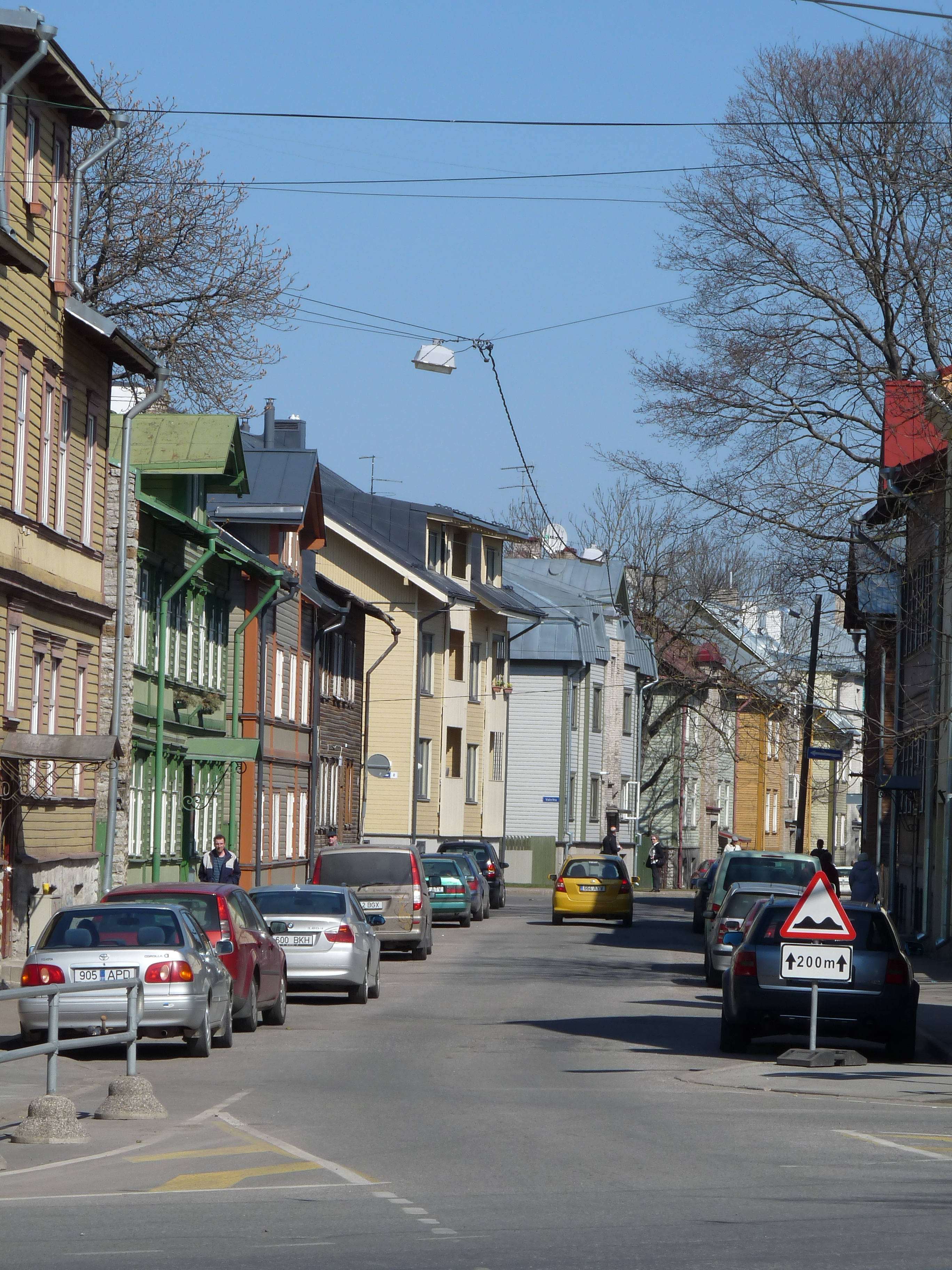 Malmi street in Tallinn, Estonia